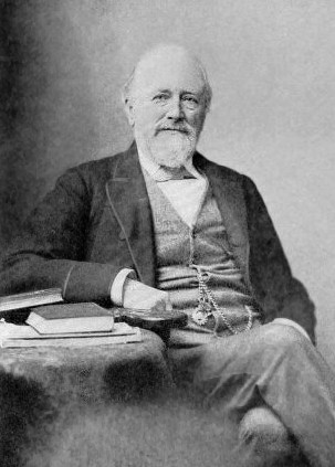 Edward Frankland (18 January 1825 – 9 August 1899)